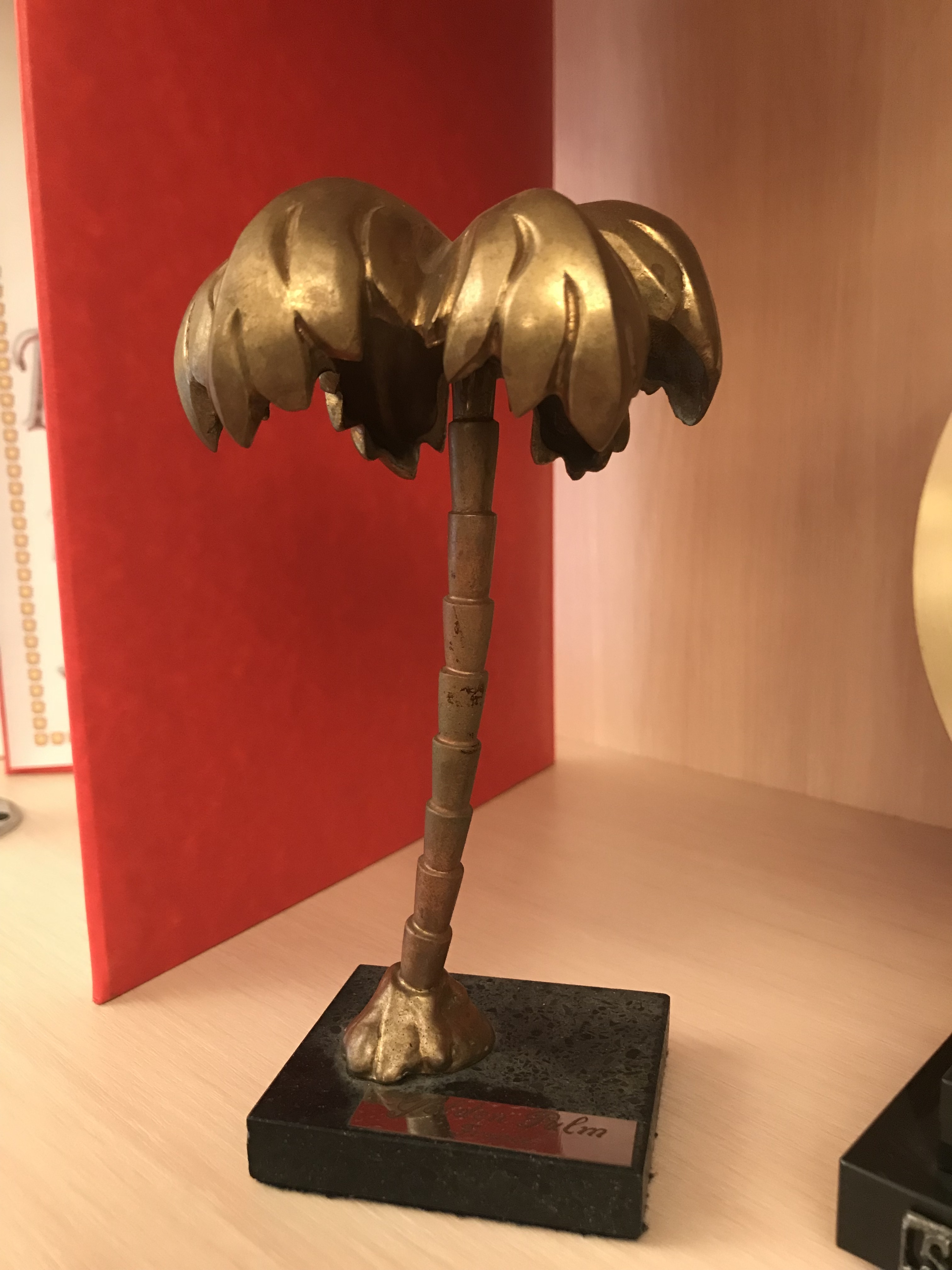 1997, France, Nice. Kizlyar Brandy Factory was awarded the International Certificate and the "Golden Palm" Prize.